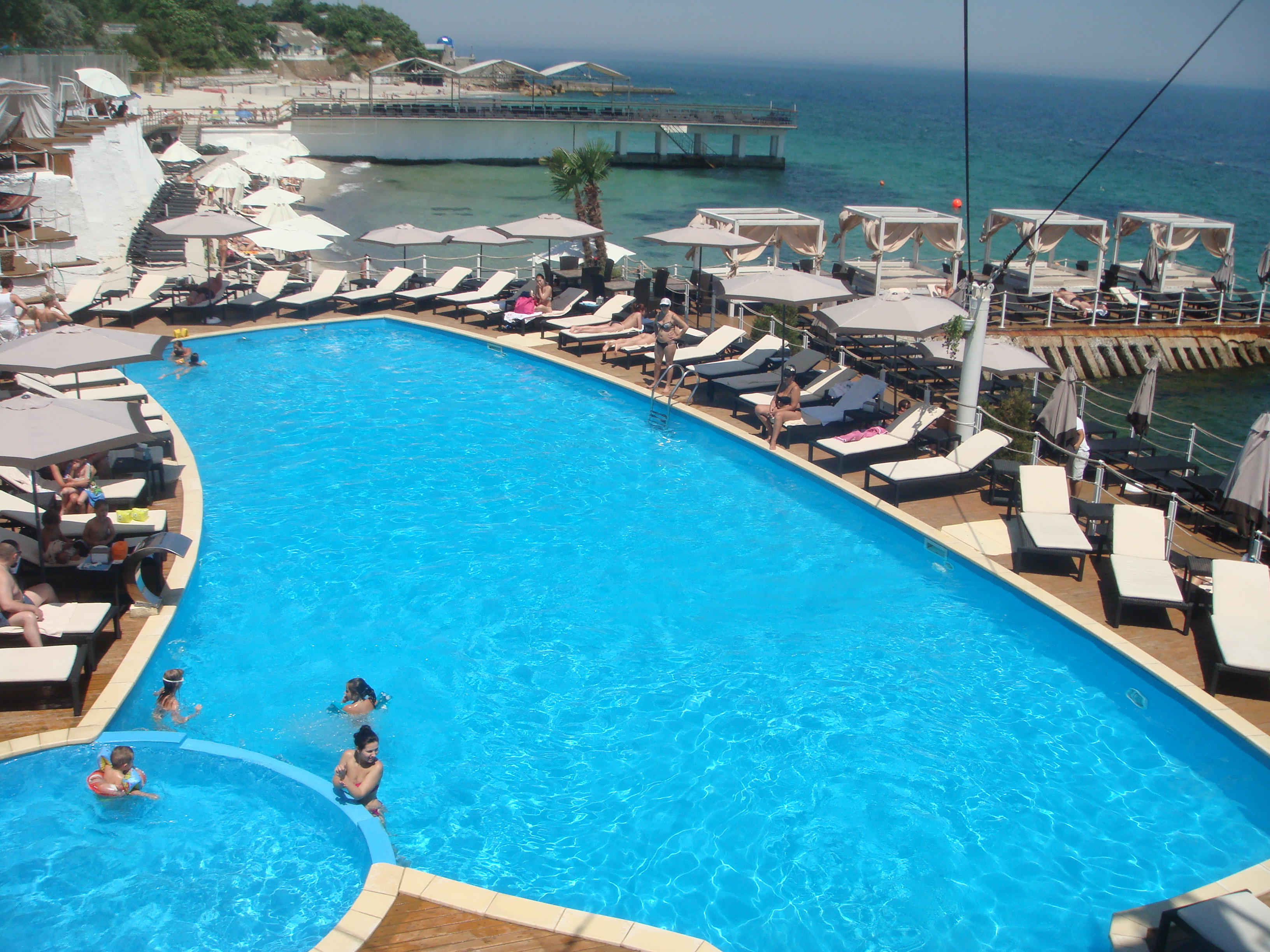 Odessa, Ukraine. Arcadia resort area. View of seawater swimming pool of Plaza Beach Club. Summer 2011.